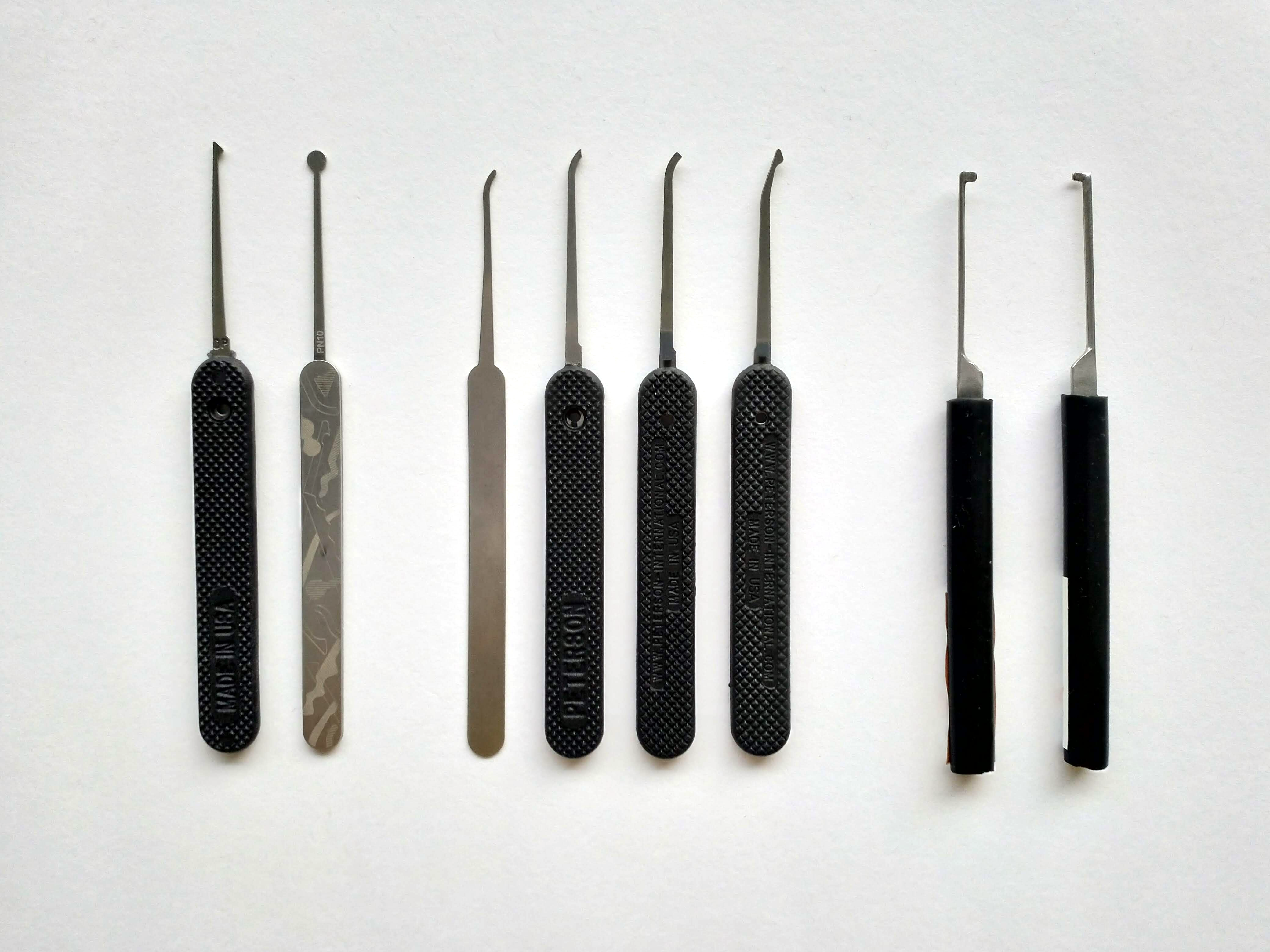 From left to right: 1. half diamond 2. ball 3-4. short hooks 5. medium hook 6. deforest half diamond 7-8. flags